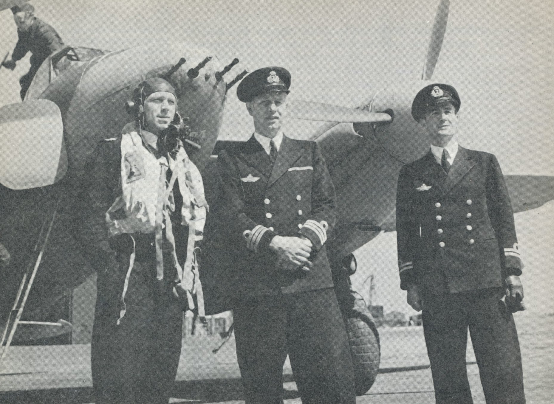 Håkon Offerdal (1911-1943), Finn Lambrechts (1900-1956), Knut Skavhaugen (1911-1945) of 333 N Squadron at Leuchars